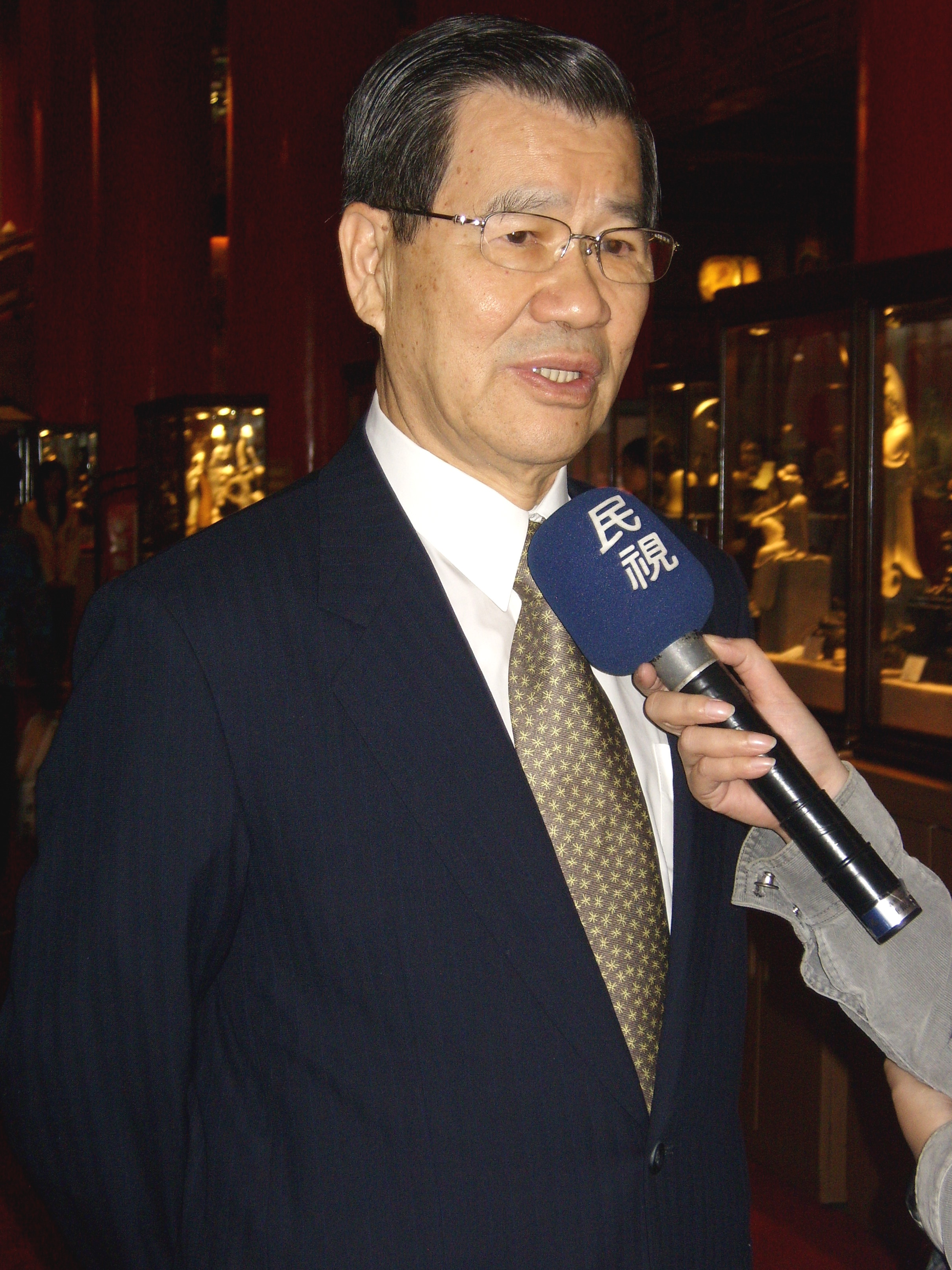 KMT Vice President Candidate of 2008 Taiwan Presidential Election Vincent Siew.